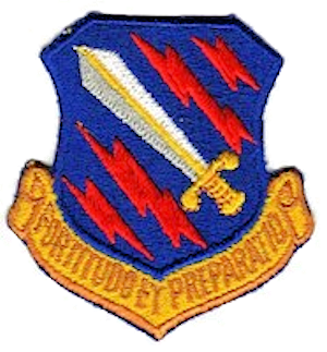 21st Fighter-Bomber Group emblem